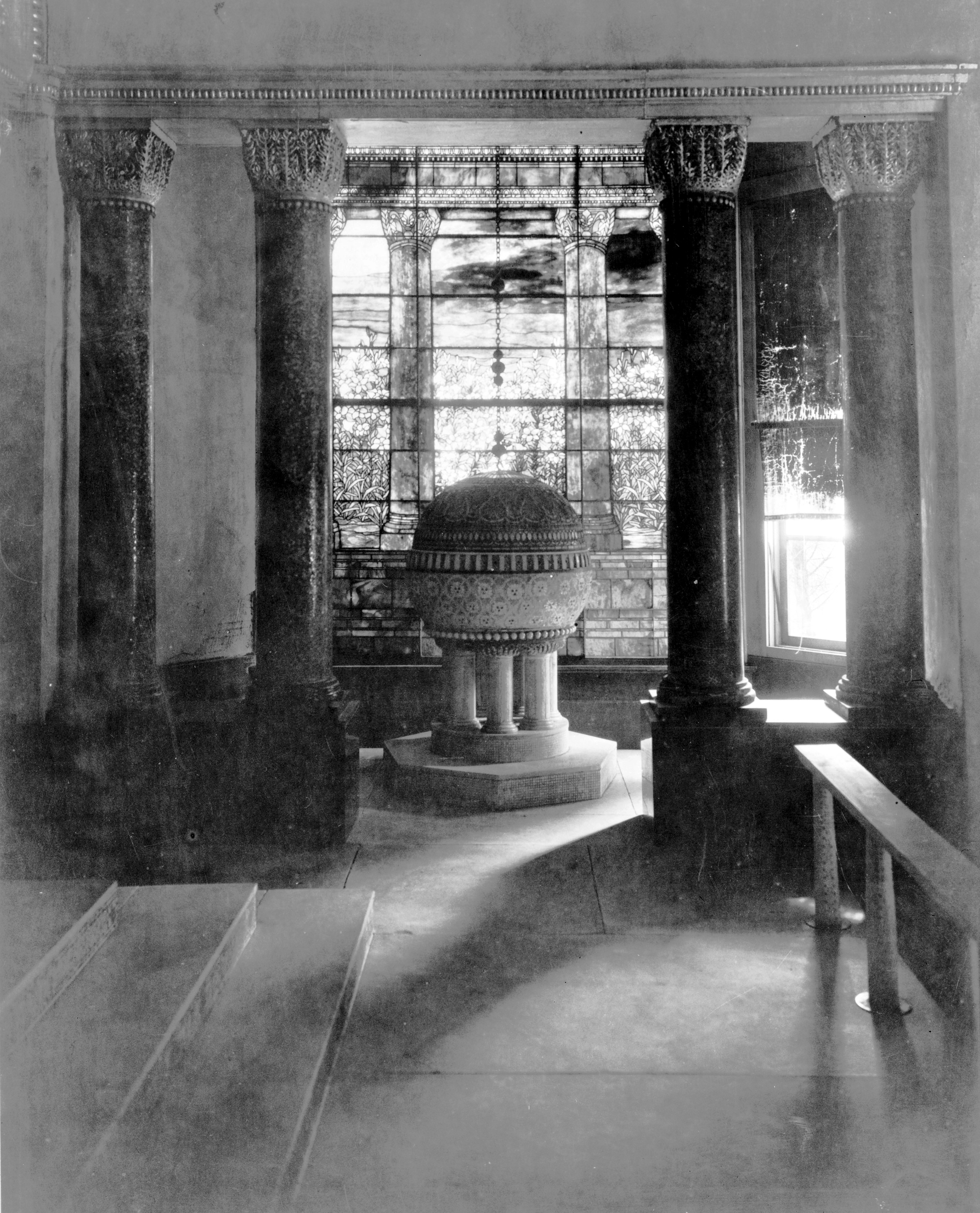 Baptistery of the Tiffany Chapel, originally created for and installed at the 1893 Chicago World's Colombian exposition. After the Fair the chapel was dismantled and rebuilt at Tiffany's home on Long Island. Today the Chapel has been rebuilt and displayed at the Charles Hosmer Morse Museum in Winter Park FL. Chapel at Laurelton Hall (Demolished) formerly at Laurel Hollow & Ridge Roads, Oyster Bay, Nassau County, NY Residence of Louis Comfort Tiffany Built 1905 - Burned/demolished 1957 From the Historic American Buildings Survey at the Library of Congress. David Aronow, Photographer circa 1924